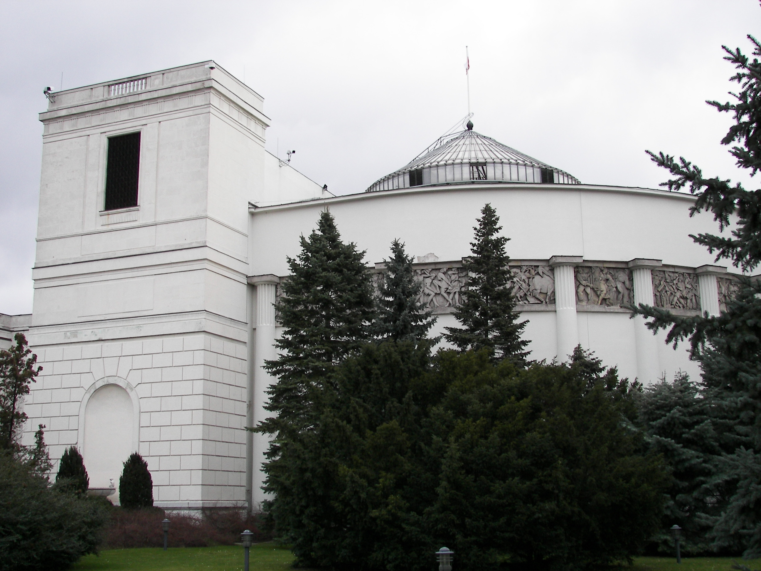 Polish Sejm building as seen from Wiejska street